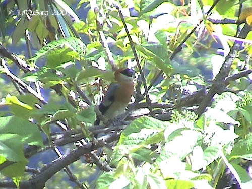 Red-headed Bullfinch Pyrrhula erythrocephala in Kullu District of Himachal Pradesh, India.